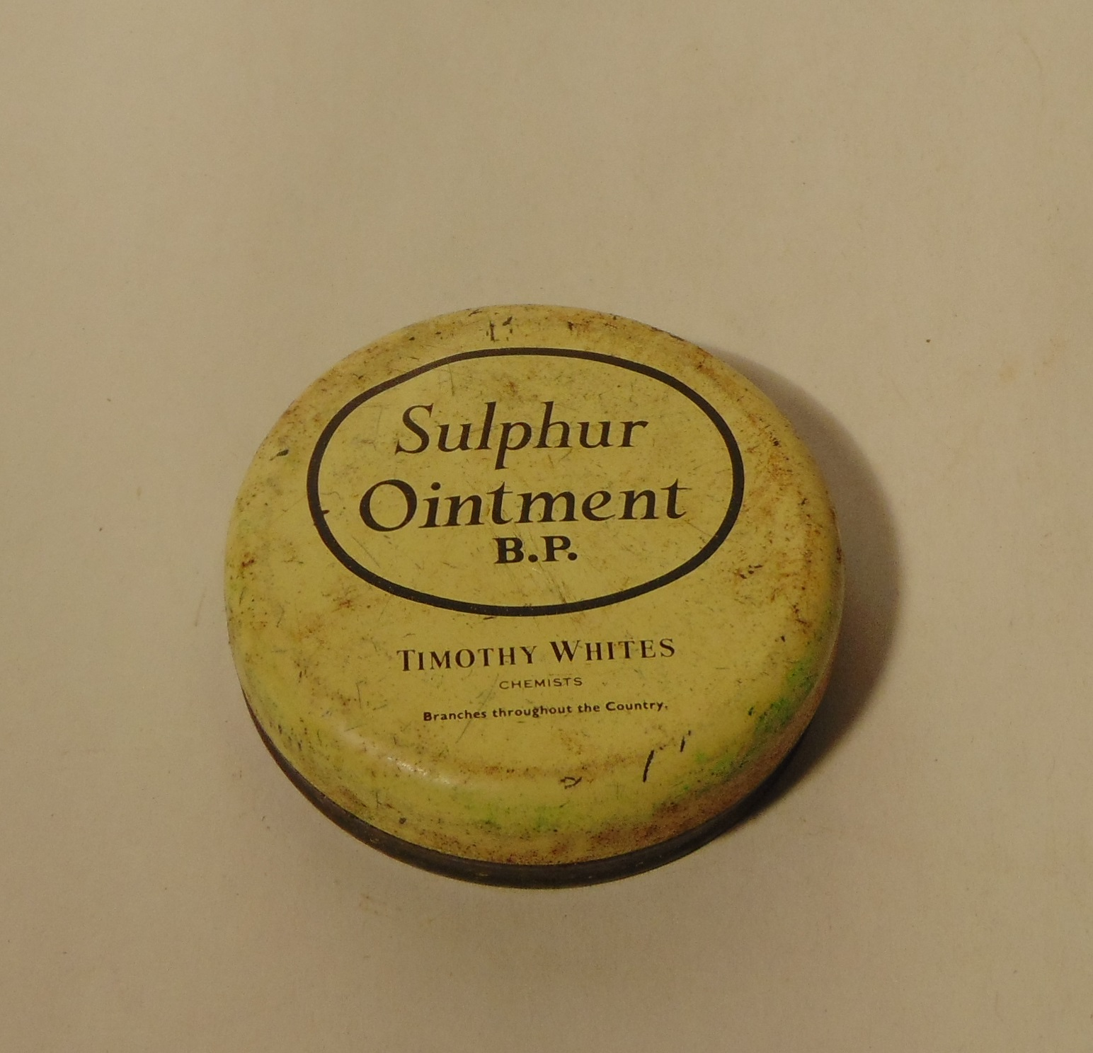 Sulphur ointment b.p. Timothy whites. Skin cream, 1940s. Photographed in the collection of the National Liberation Museum 1944-1945, the Netherlands, archive number 094.046.32